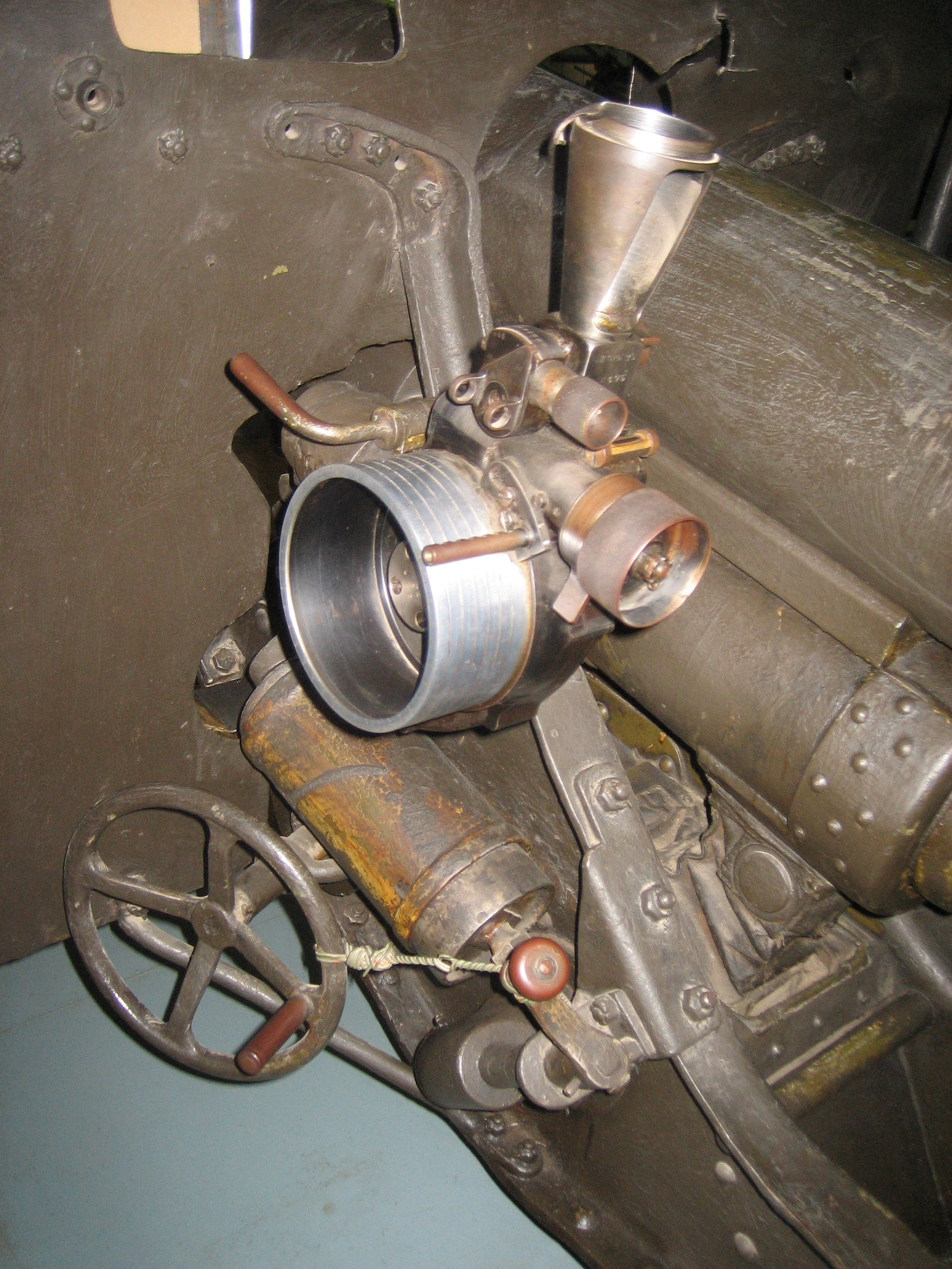 76.2 mm M1902/30 L40 gun displayed in Saint Petersburg Artillery Museum